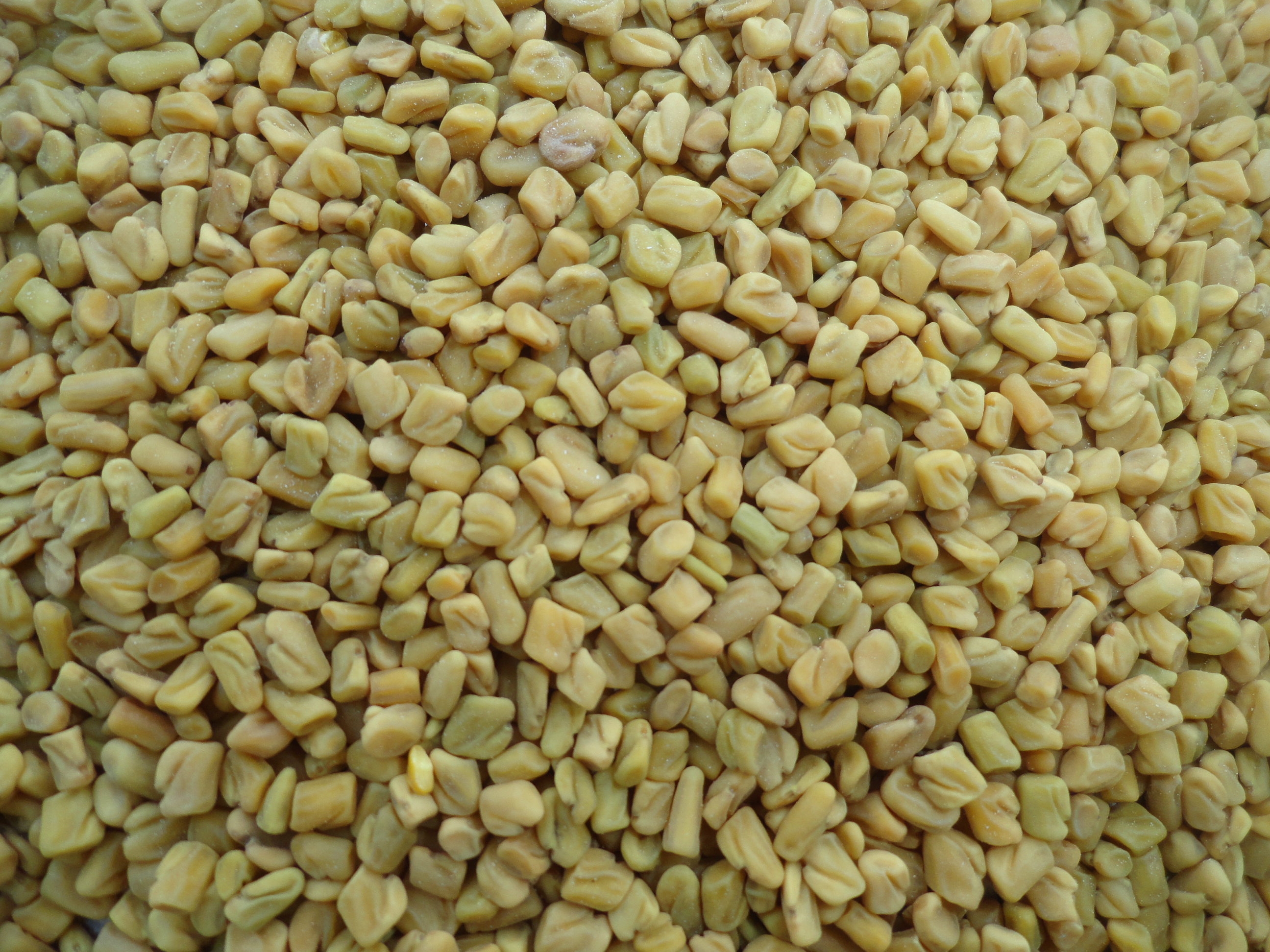 mentulu seeds. my own work